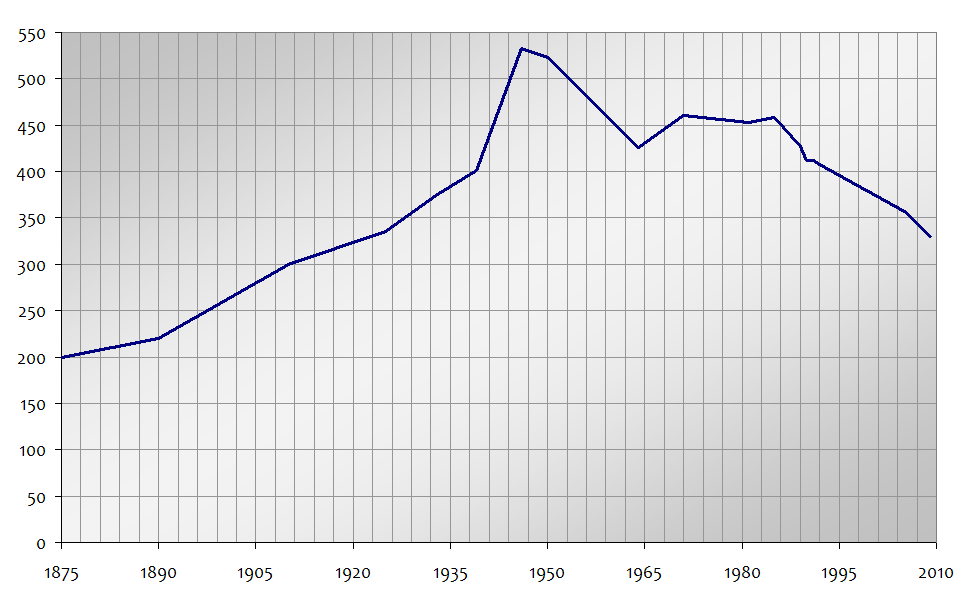 Population chart of Prieschka, Brandenburg, Germany.